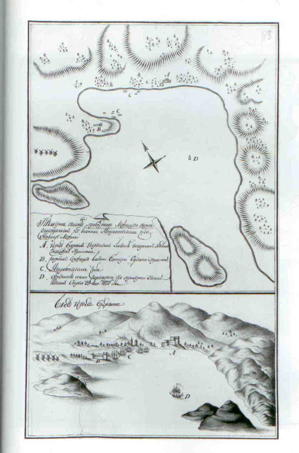 This is Chart and a panoramic view of Bodrum. The plan was drawn from russian fregat Tino (her position designated on the chart with letter D) during Russo-Turkish war 1769-1774. The town of Bodrum has ancient fortifications and is well provided with canons (letter A) A constructions which serves as a battery of a ten canons (letter B). Turkish vessels (letter C). This chart was made on 25th April 1772